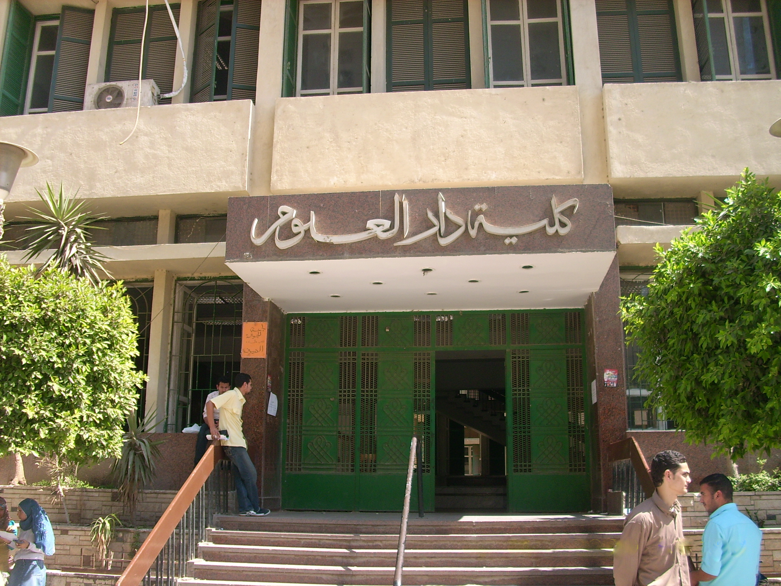 Cairo Univ - Dar Ul-Oulum